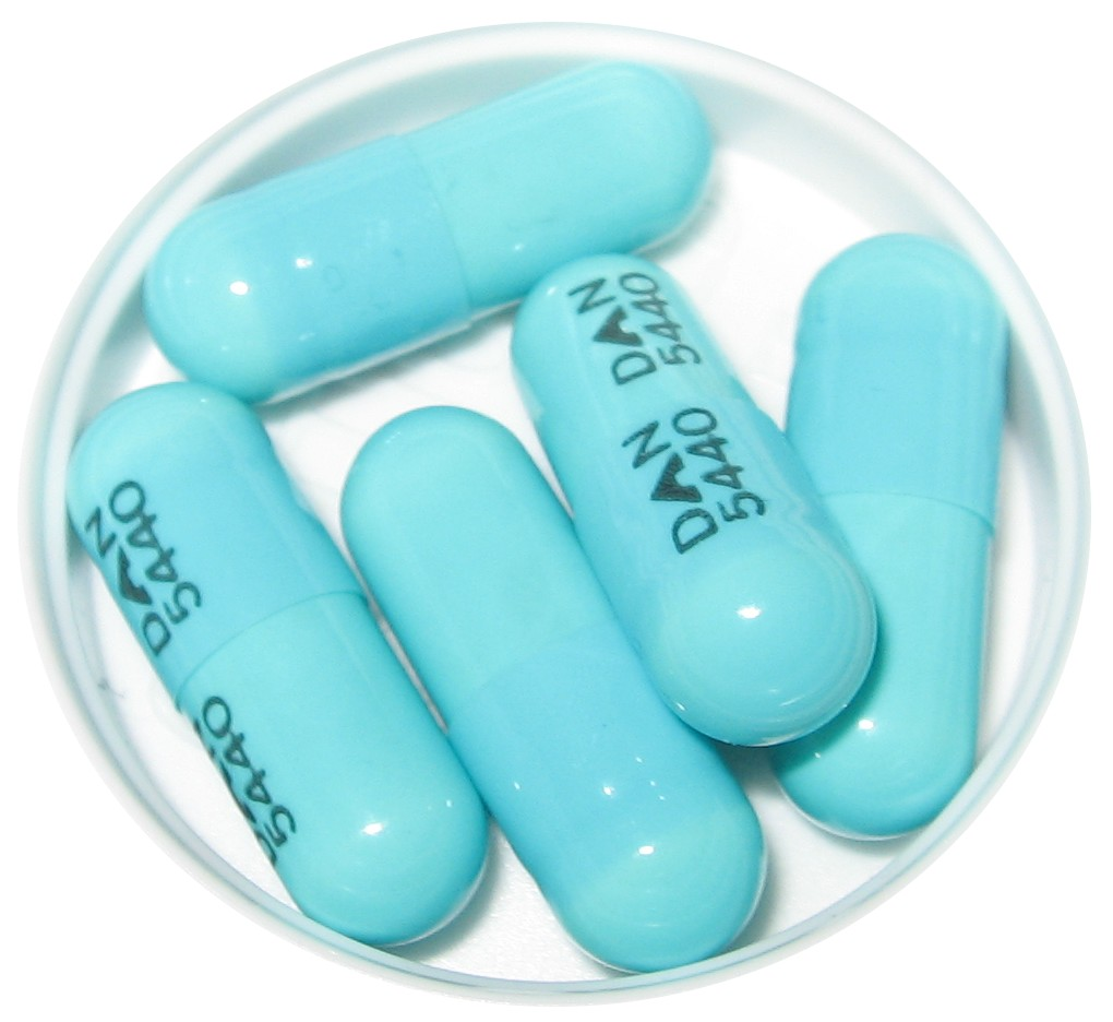 Five 100mg doxycycline capsules, manufactured by Schein-Danbury.